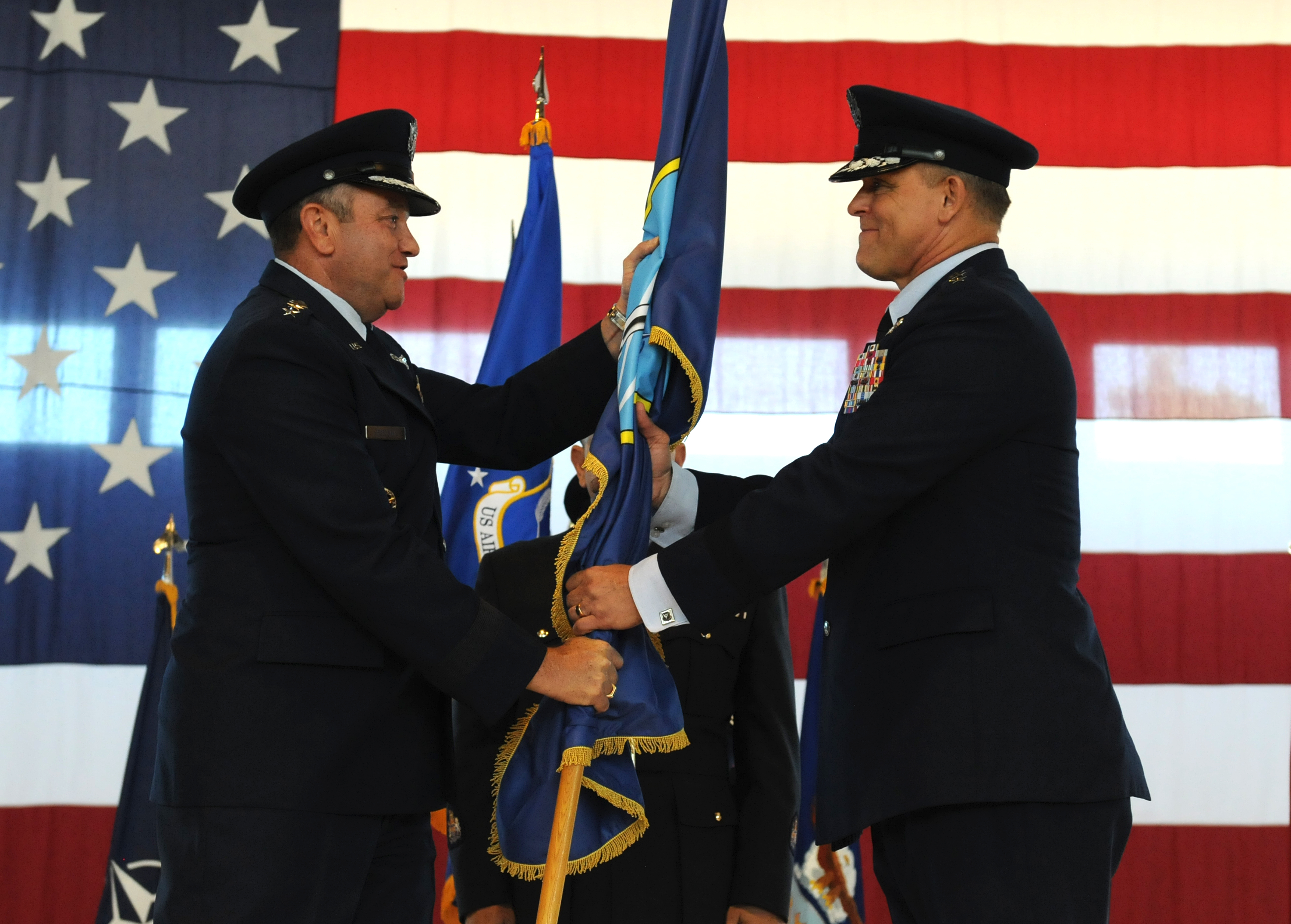 Gen. Philip M. Breedlove, U.S. European Command commander and NATO Supreme Allied Commander Europe, gives Gen. Frank Gorenc the command of Allied Air Command during an assumption of command ceremony at Ramstein Air Base, Germany, Aug. 2, 2013. (U.S. Air Force photo/Airman 1st Class Holly Mansfield)